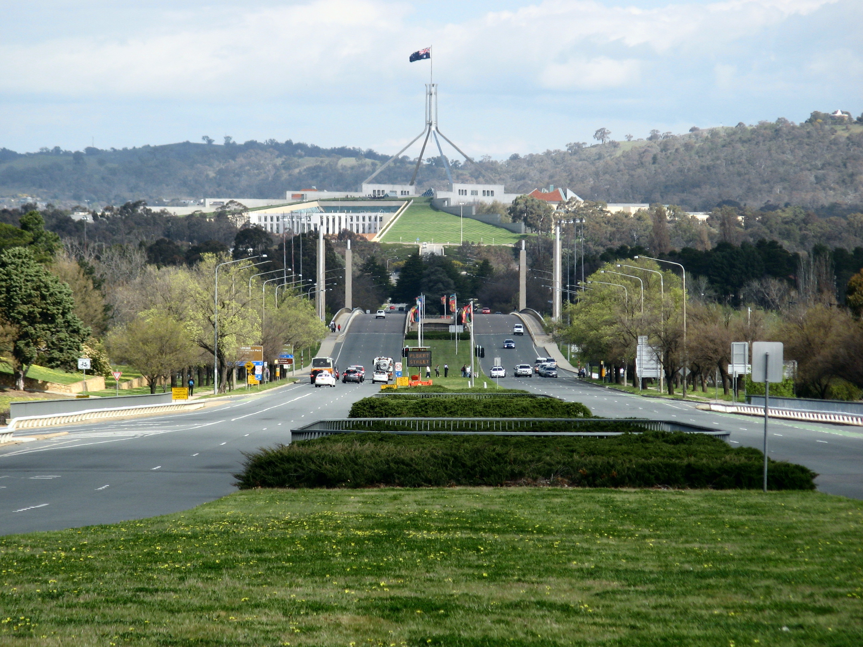 Looking south from Vernon Circle, City Hill, Canberra, ACT, along Commonwealth Avenue toward Parliament House, visible in the background